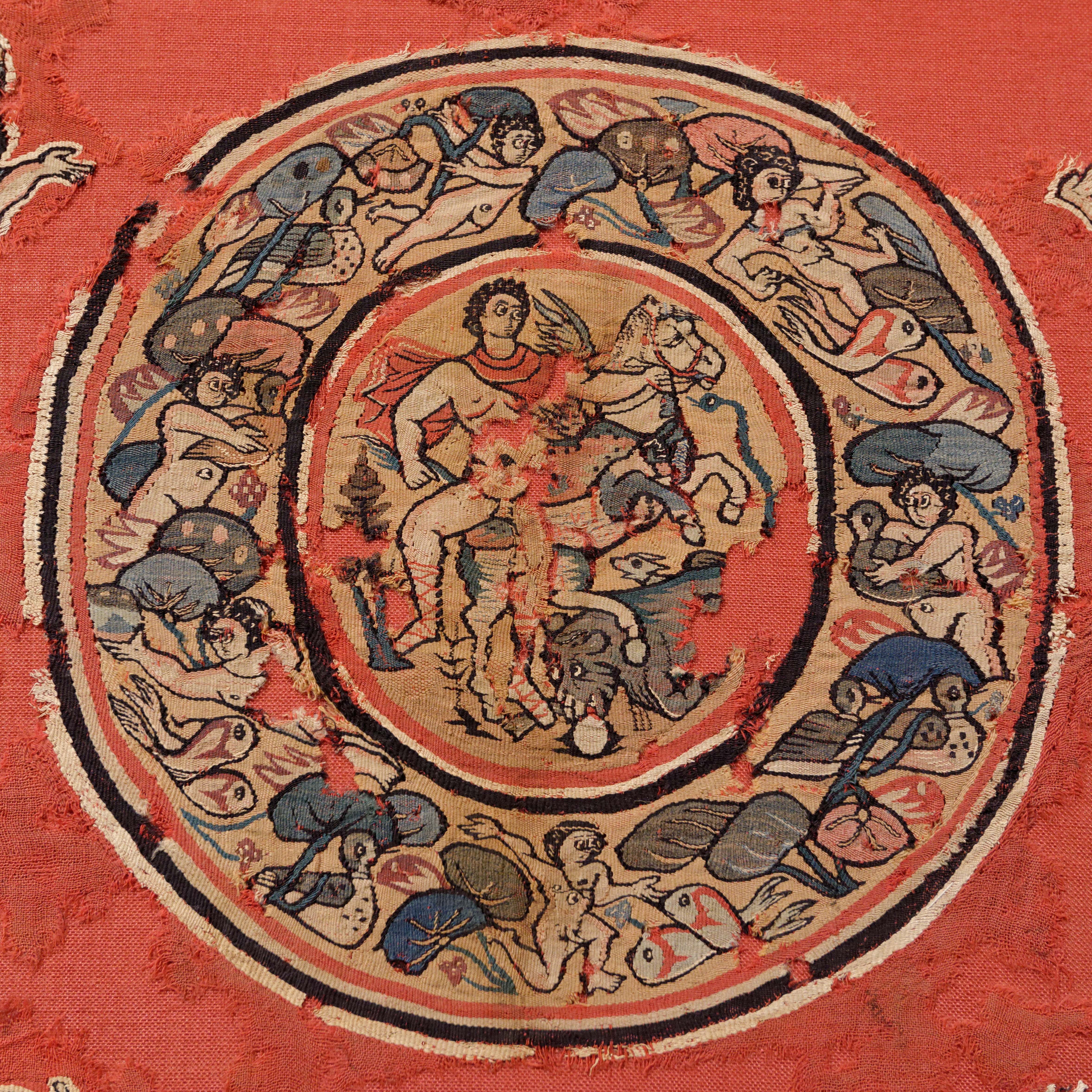 Bellerophon and Perseus trampling on the Chimera. Fragment of a cloth from the tomb of a Sabina in Antinoë, found wrapped around the deceased's shoulders.